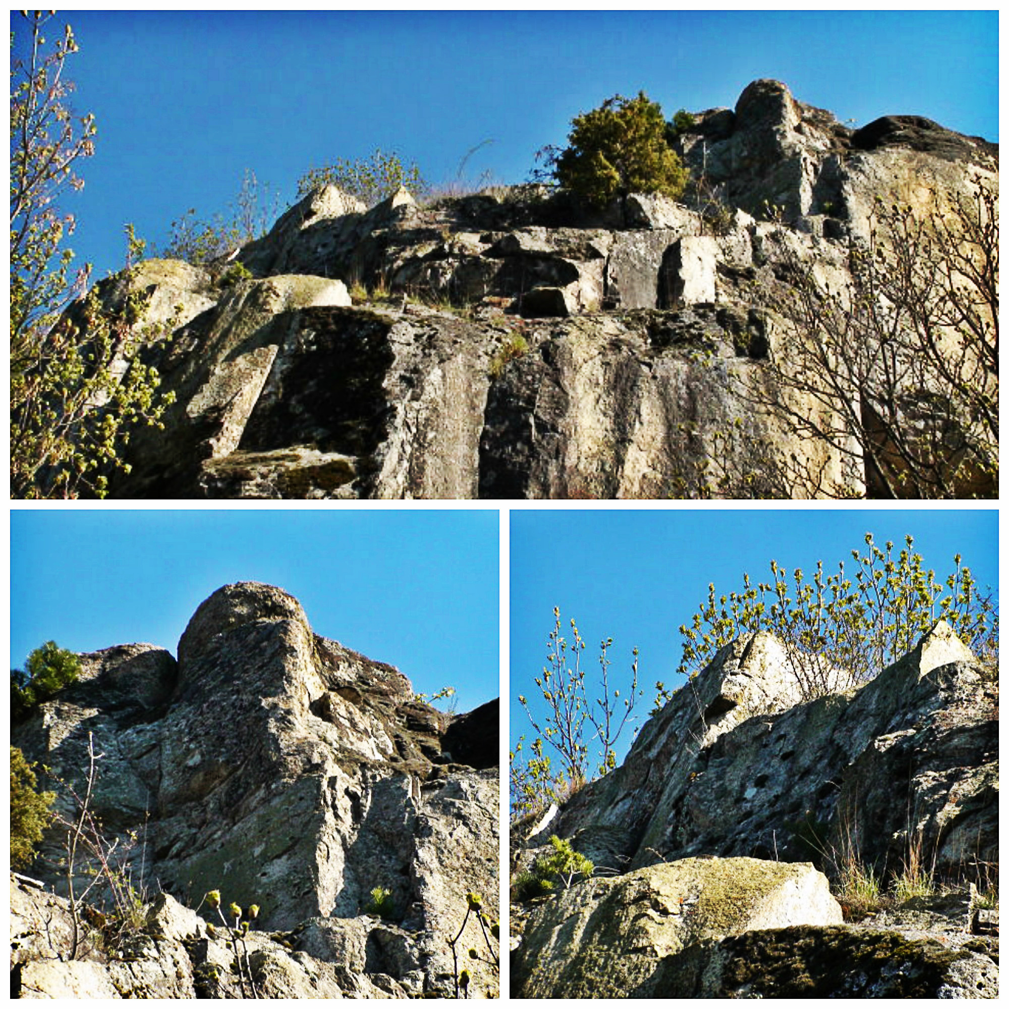 Golema_Garvanitza_Solar_Sanctuary_Beraintzi_BG_1